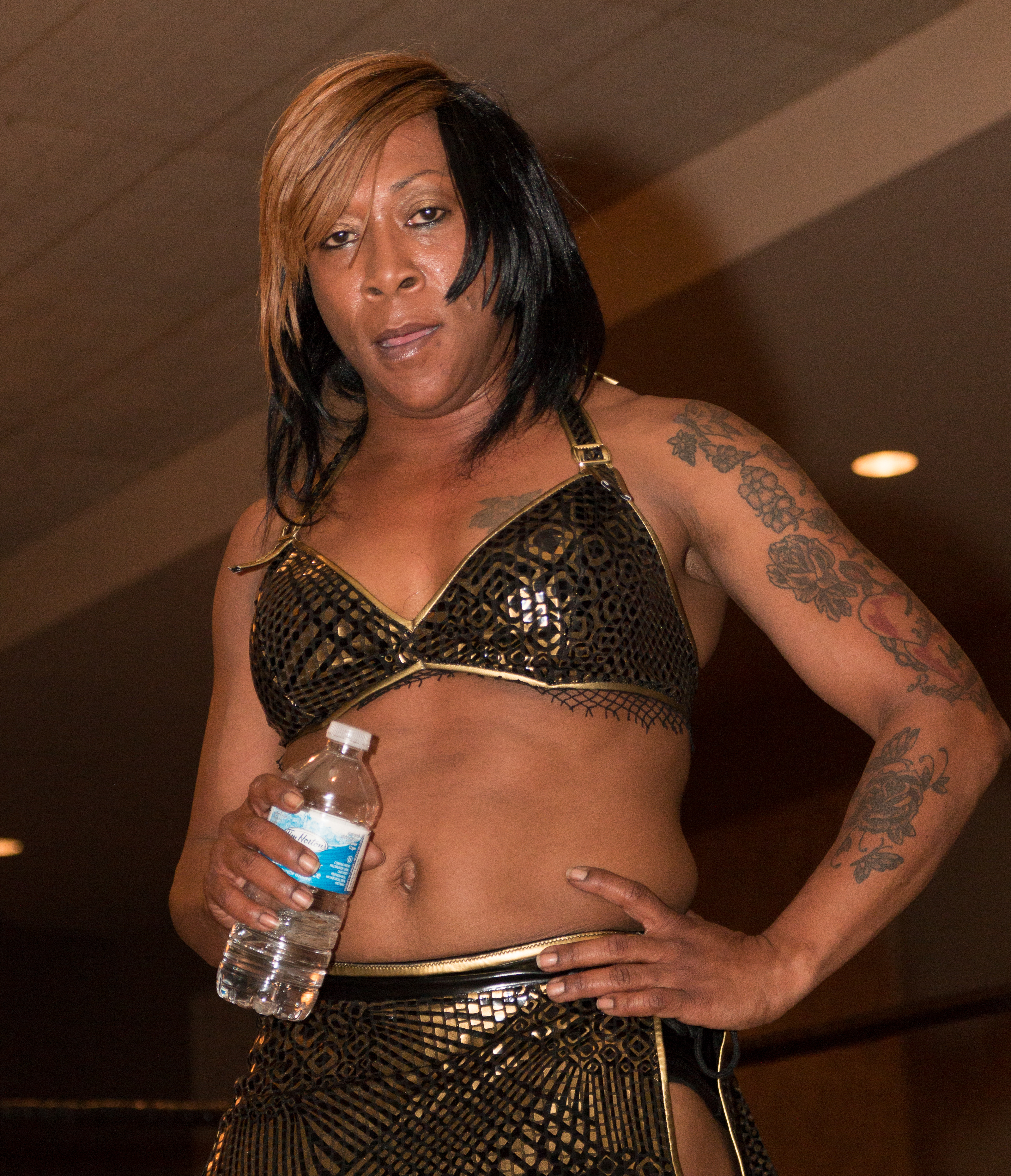 Pro wrestler Jazz in-ring post match at the Hardcore Roadtrip show in London, ON